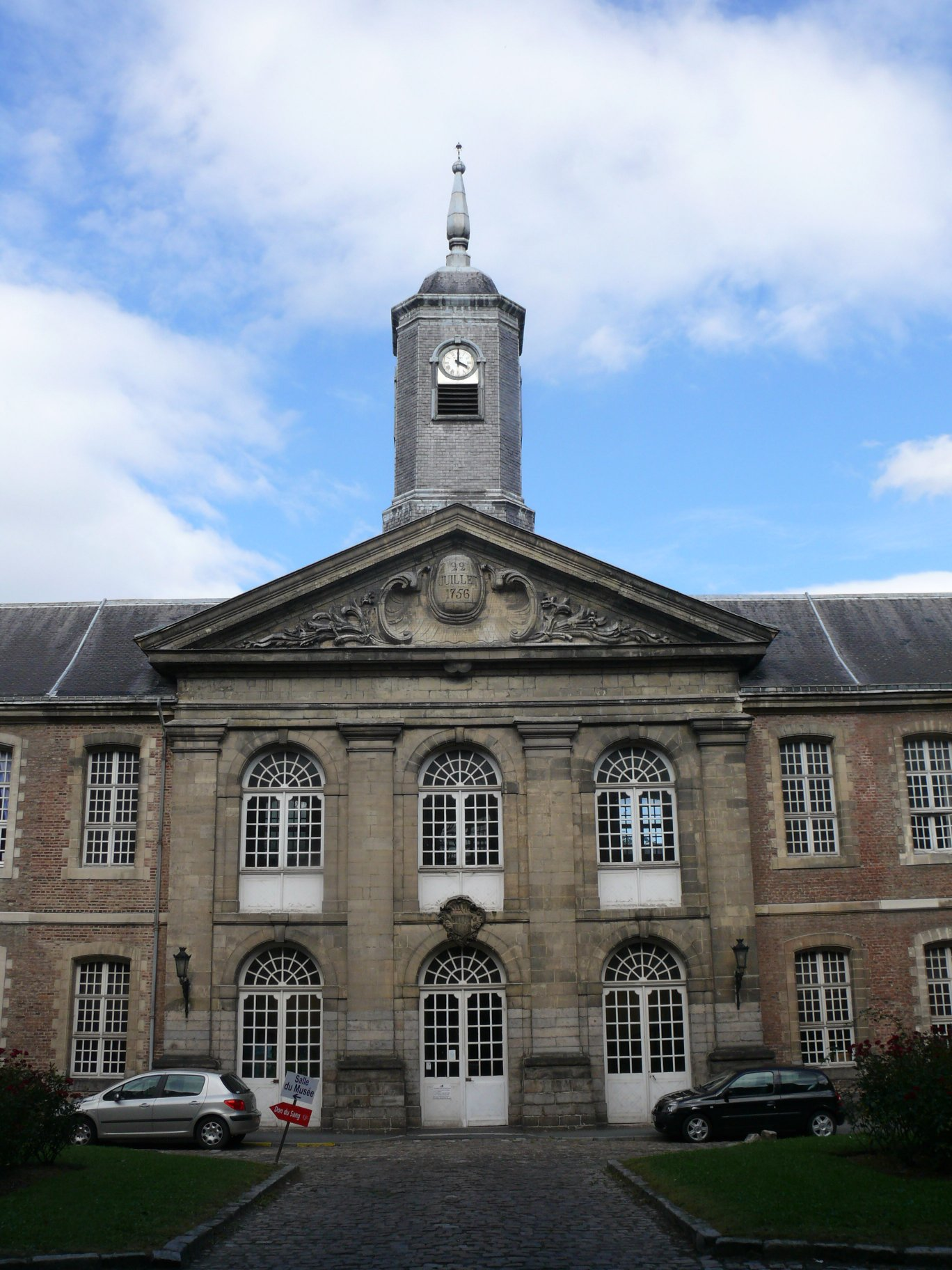 Hospital of Douai (Nord, Hauts-de-France, France).